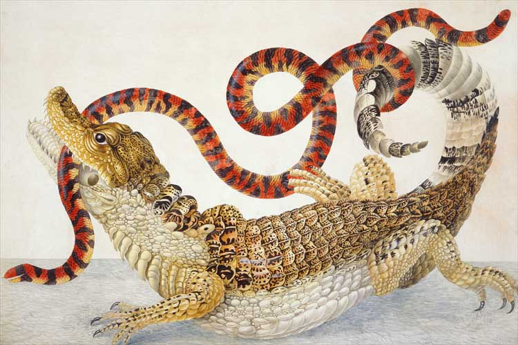 Spectacled Caiman (Caiman crocodilus) and a False Coral Snake (Anilius scytale).